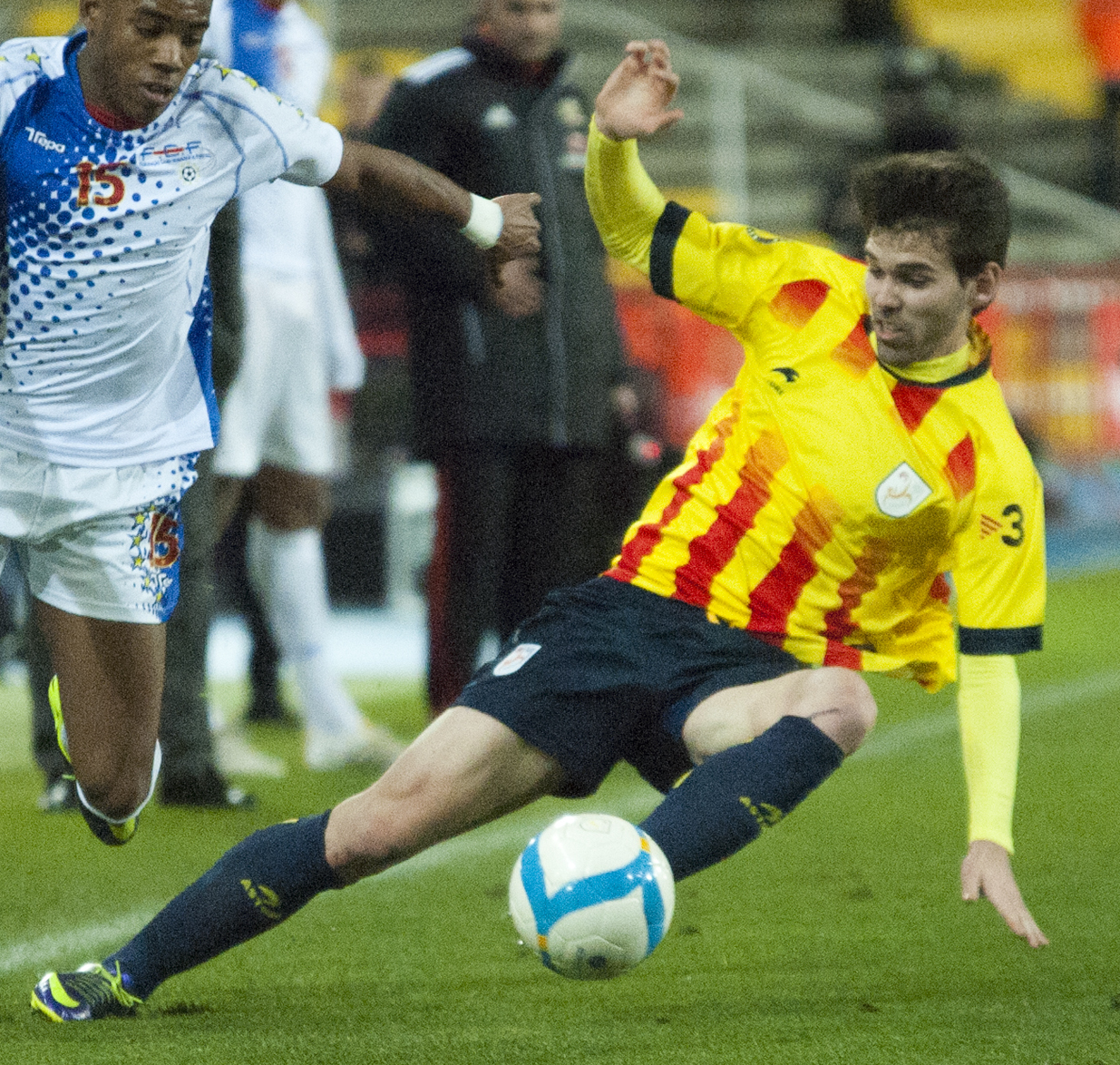 Spanish football player Víctor Álvarez Delgado during friendly match Catalonia vs. Cape Verde